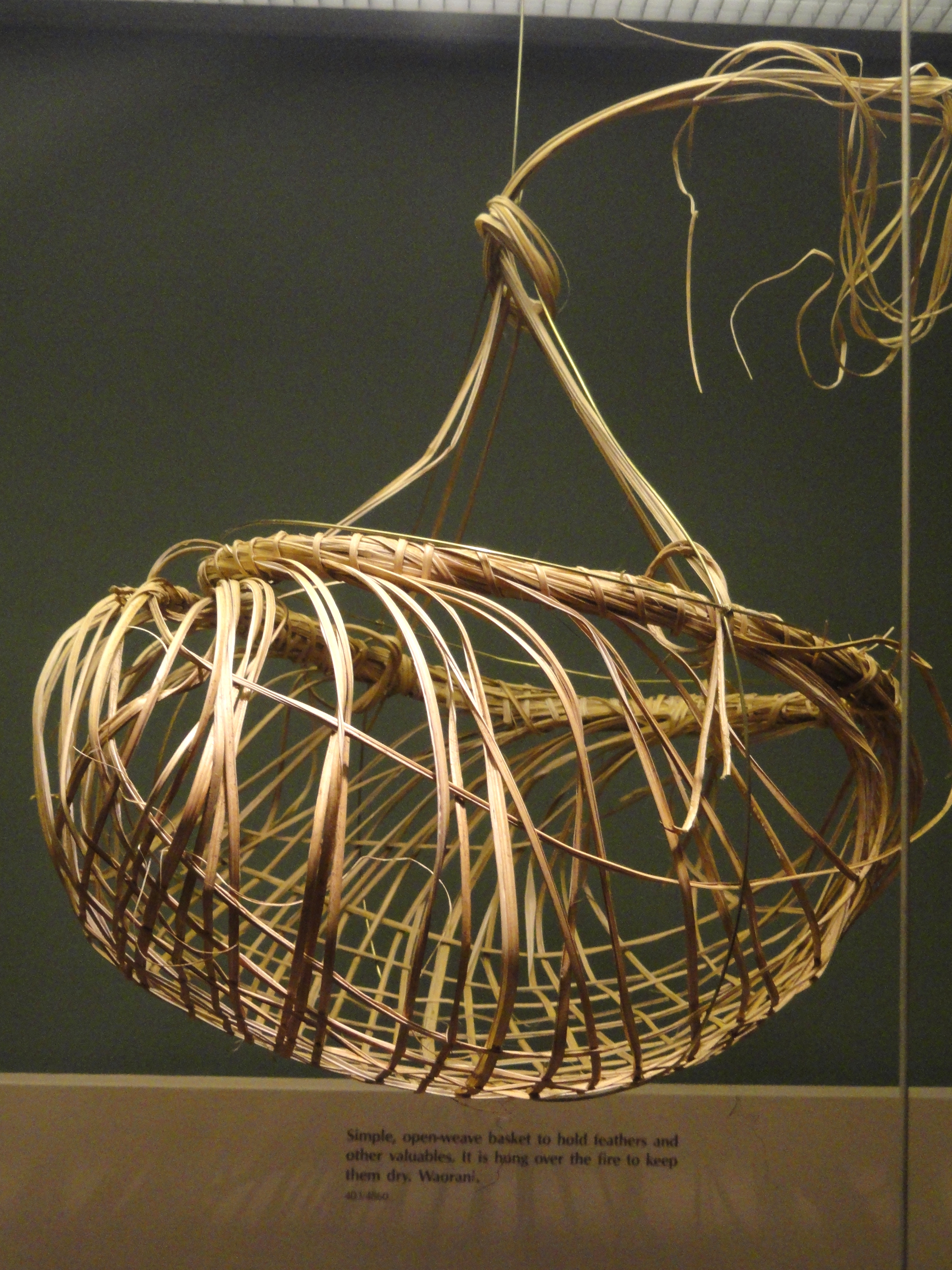 Exhibit in the South American collection of the American Museum of Natural History, Manhattan, New York City, New York, USA.